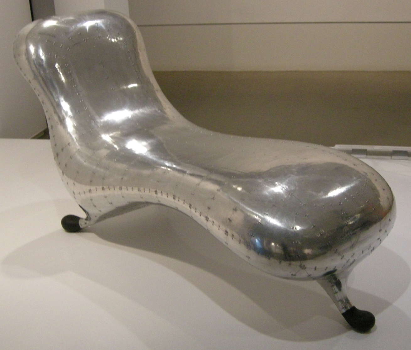 Marc Newson (Australian, born 1963): Lockheed lounge,, 1986-88, National Gallery of Victoria, Melbourne, Australia.